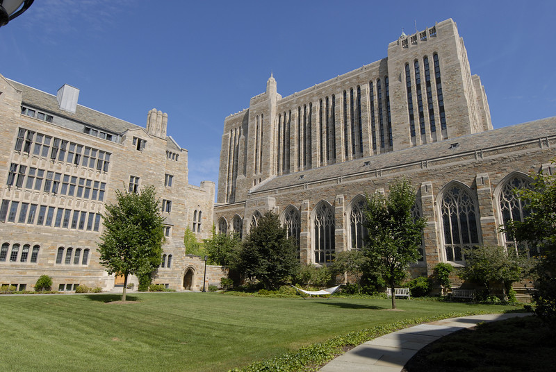 Main (Alvarez) Courtyard, Trumbull College, Yale University, New Haven, CT USA